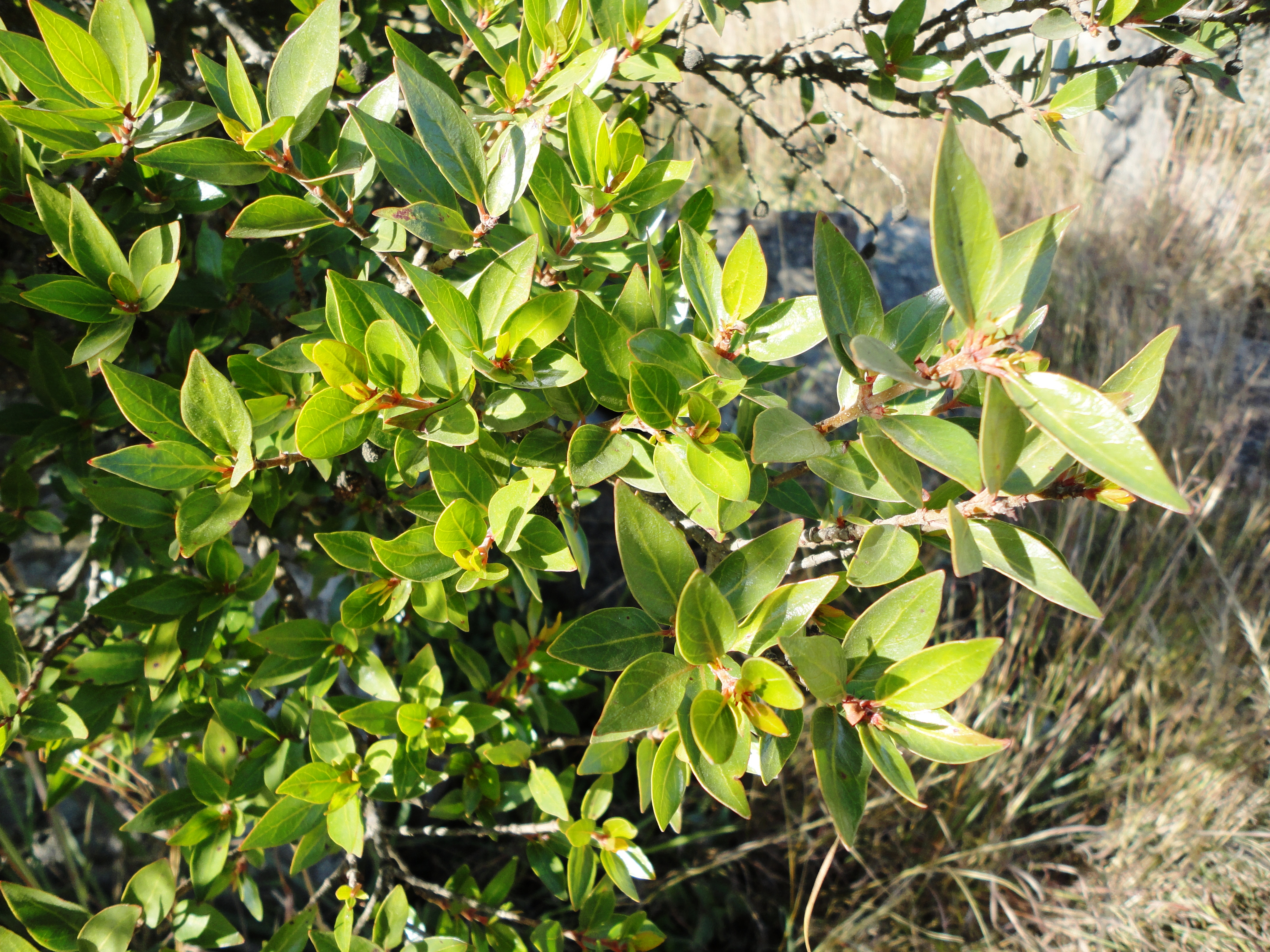 Foliage of a Strawberry Bush, near a hilltop, Louwsburg, KwaZulu-Natal